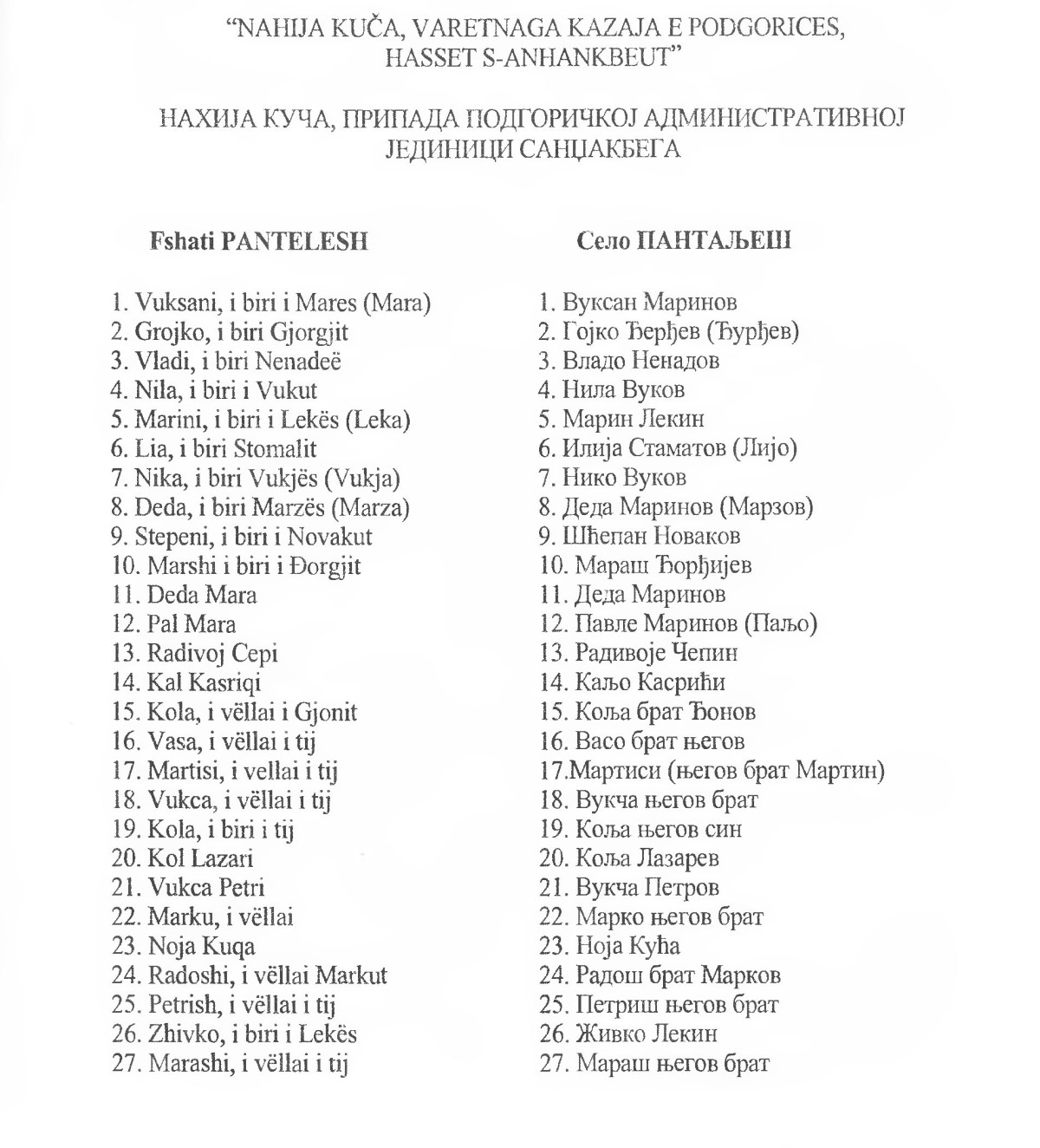 First official census and recorded evidence of Kuci from 1485